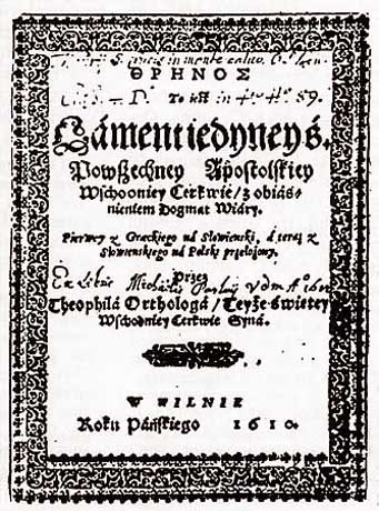 A reproduction of a cover of "Trenos" - a book by Meletiy Smotryts'kiy, a medieval Ukrainian scholar, written in 1610